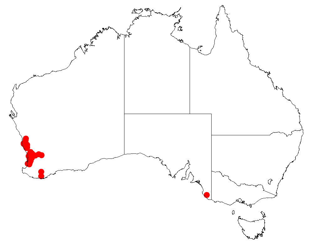 Isopogon asper Occurrence data downloaded from Australasian Virtual Herbarium on 30 October 2018 from